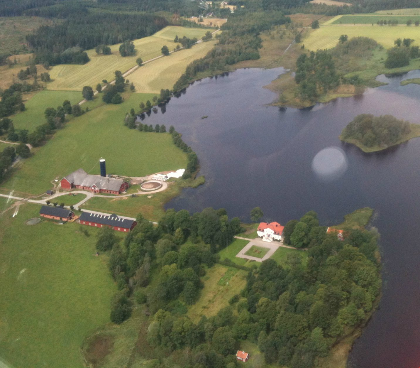 Lundholmen and Lundholmssjön